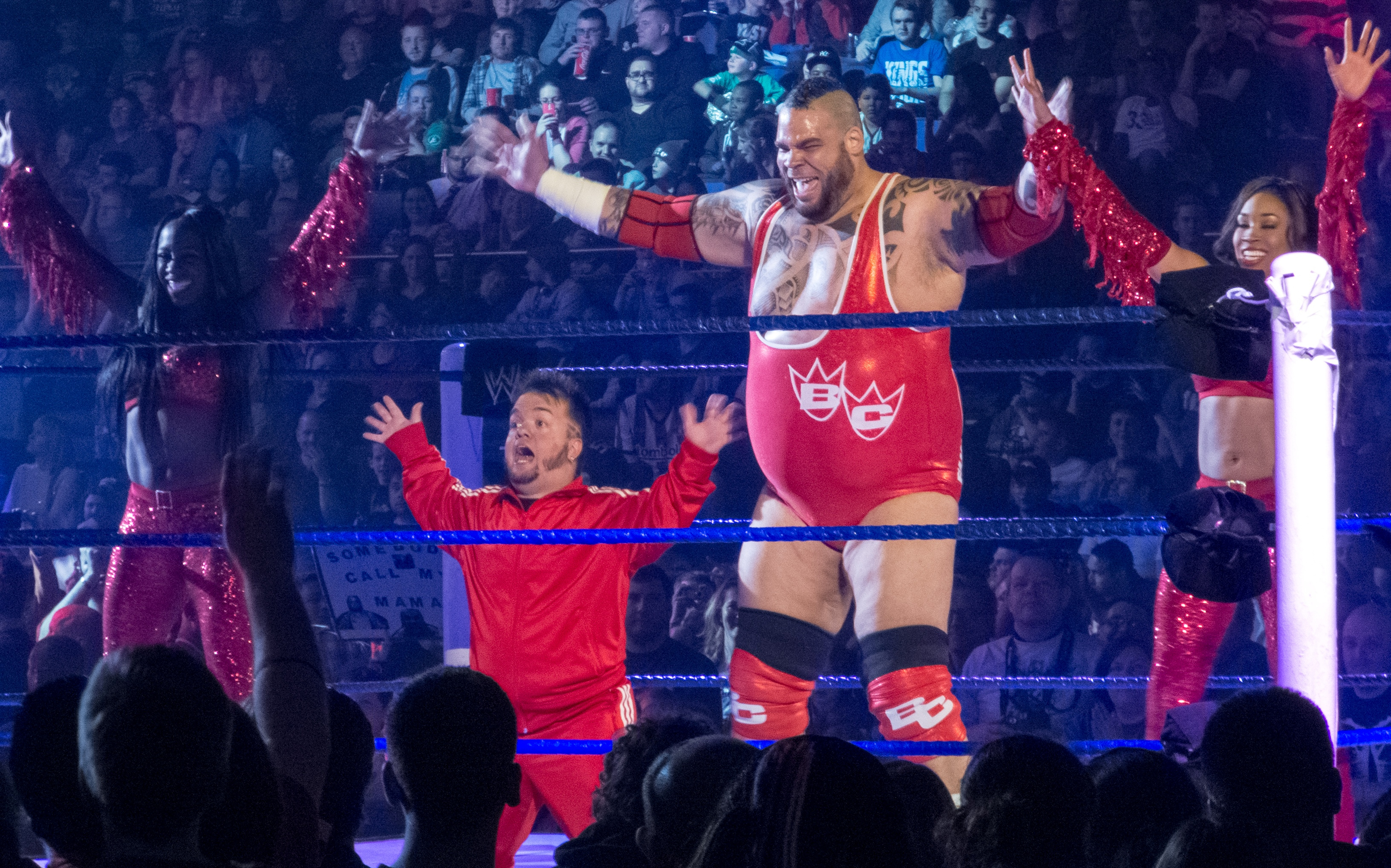 Funkasaurus Brodus Clay (centre), Hornswoggle (centre left) and the two dancers performing.